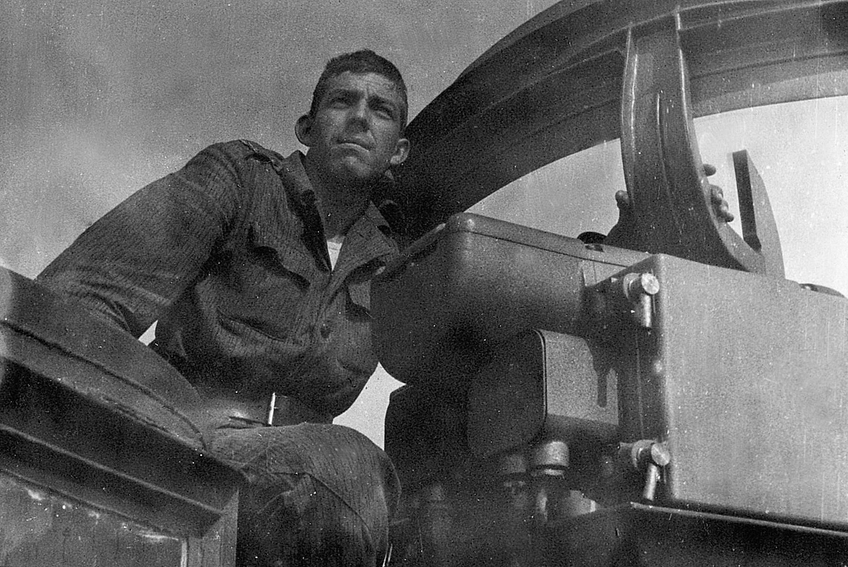 Border Protection Forces in Dźwirzyno